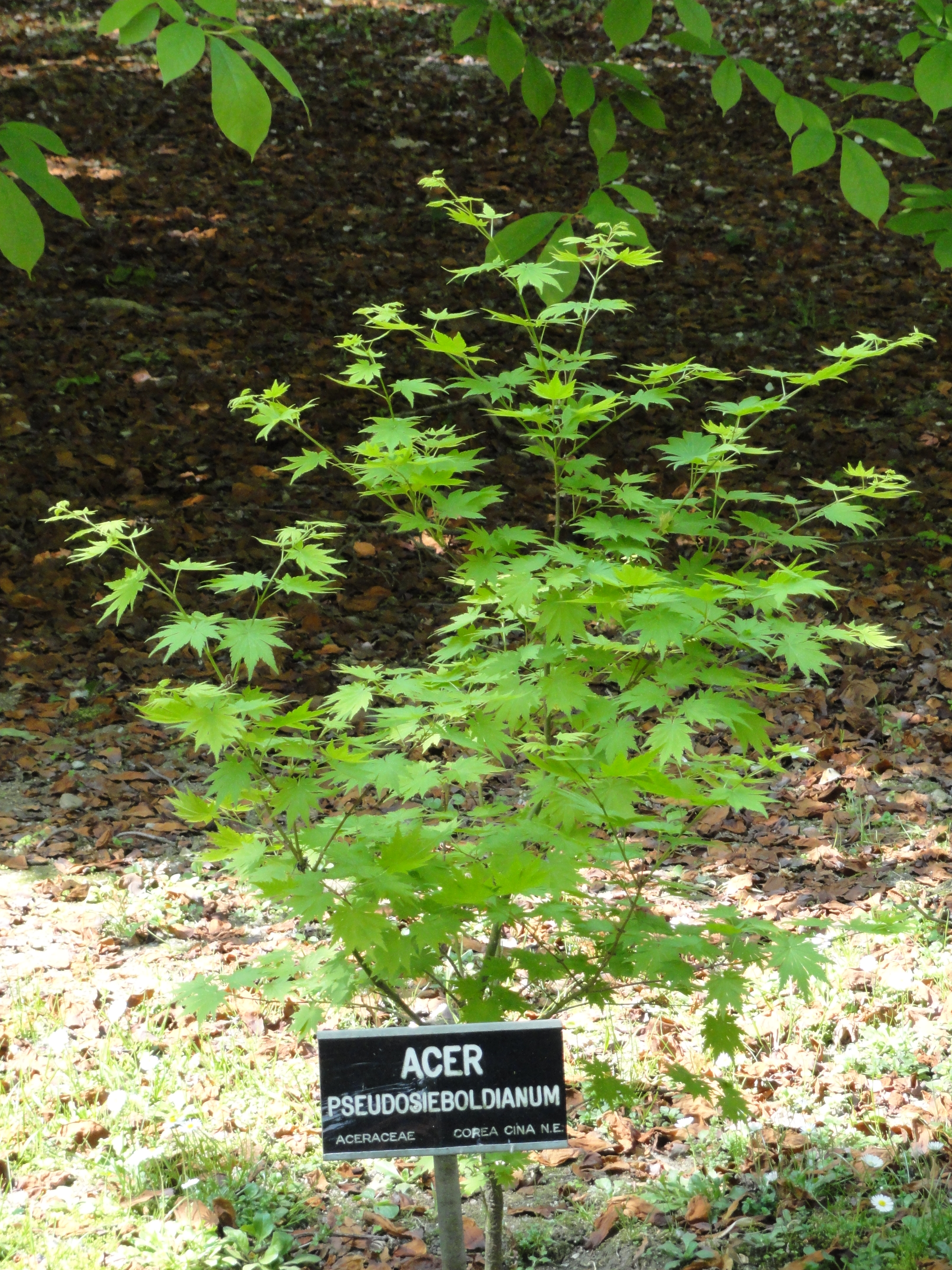 Acer pseudosieboldianum. Botanical specimen on the grounds of the Villa Taranto (Verbania), Lake Maggiore, Italy.